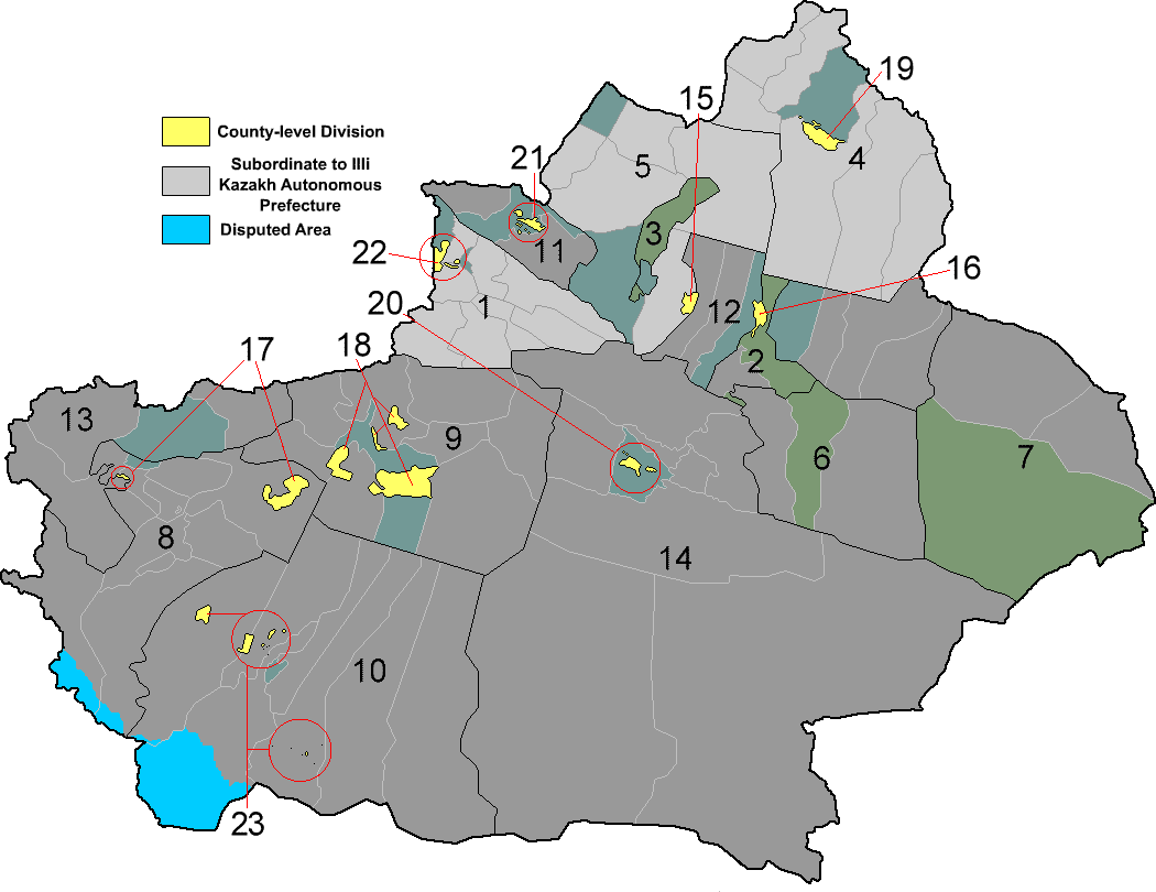 Map of prefectures of Xinjiang Autonomous Region